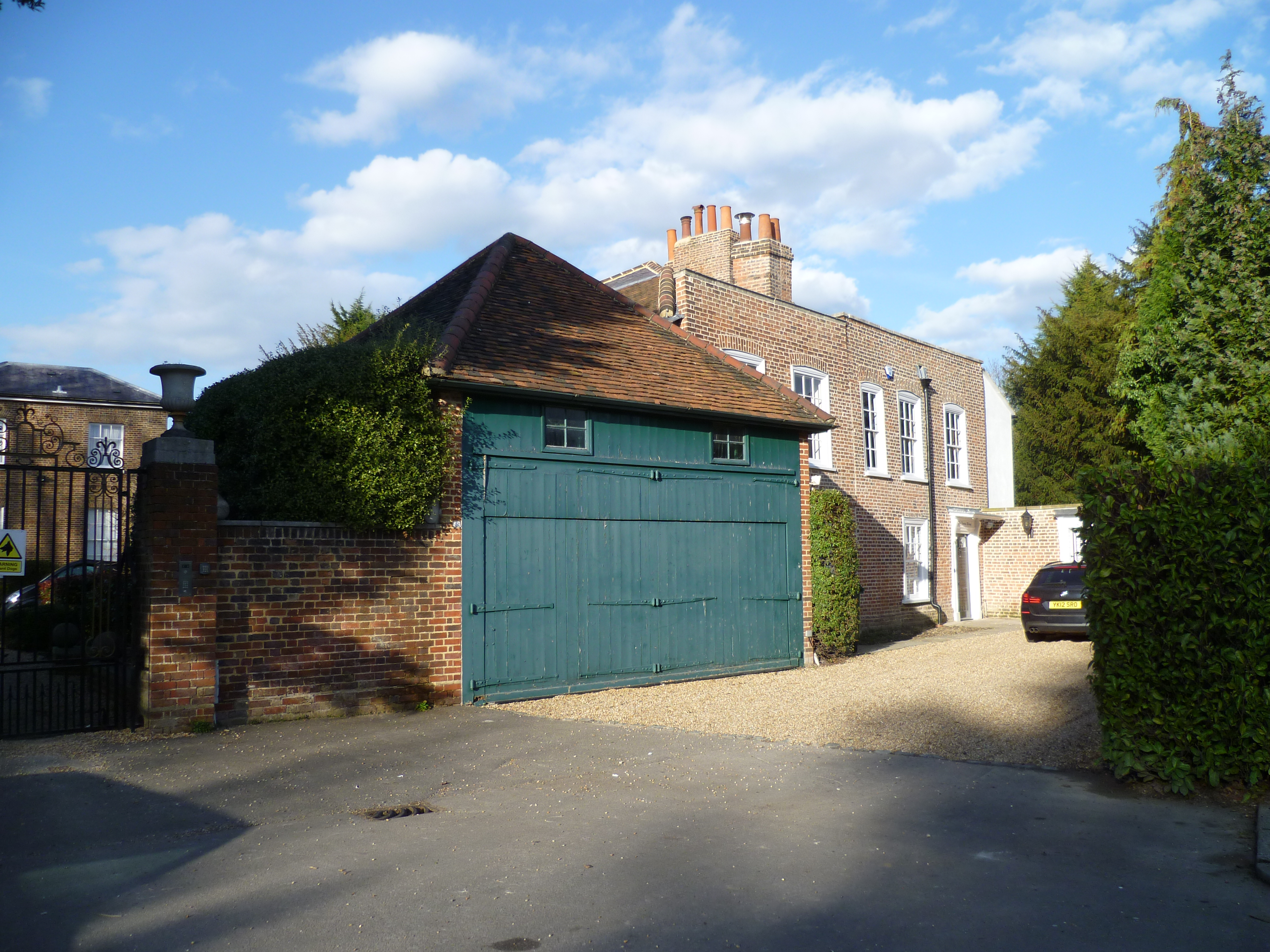 Hadley